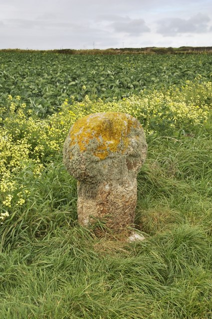 Cross on footpath between St Levan and Portcurno The path lead straight to the church entrance at St Levan which had a coffin shaped stone in its centre. Was this a marker for a corpse road between the two villages?